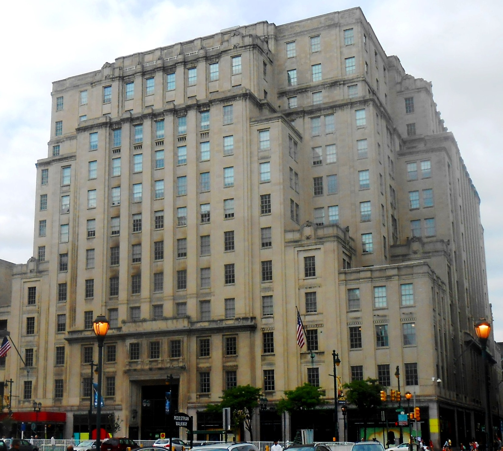 Strawbridge's Building, 8th and Market Streets, Philadelphia, PA